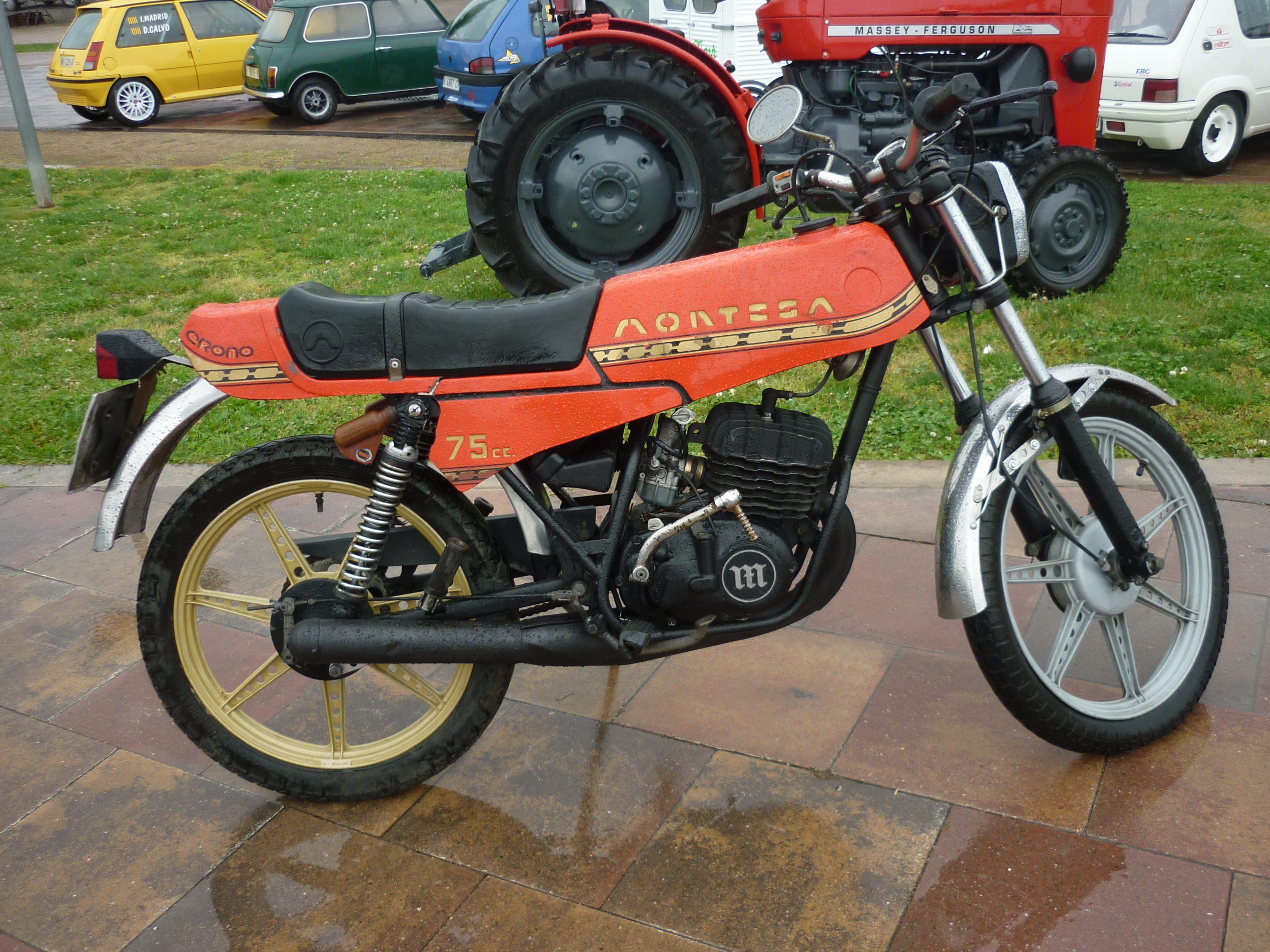 Montesa Crono 75, 1978